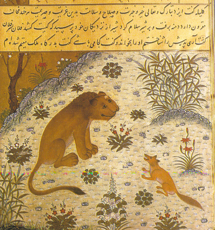 Kelileh va Demneh. This 15th century Persian mauscript is kept at the Topkapi Palace Museum in Istanbul, Turkey.